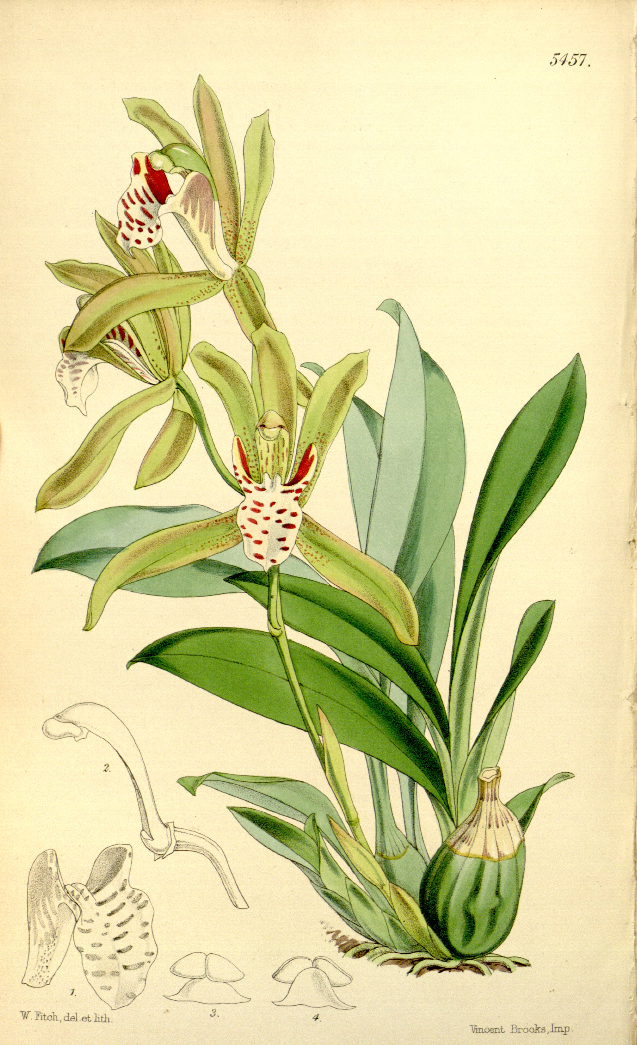 Illustration of Cymbidium tigrinum